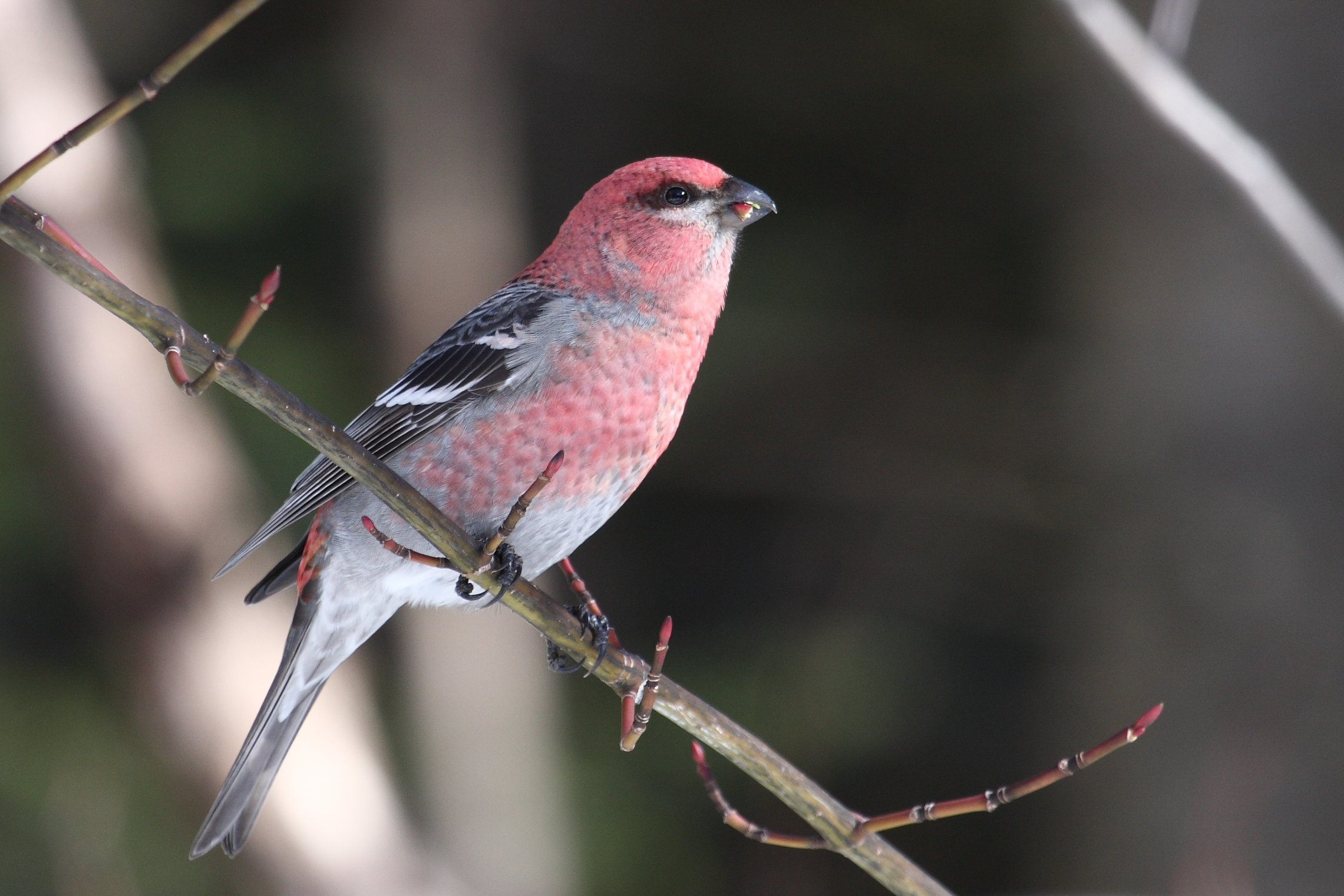 Pine Grosbeak (Pinicola enucleator), male, eating a bud. Cap Tourmente National Wildlife Area, Quebec, Canada